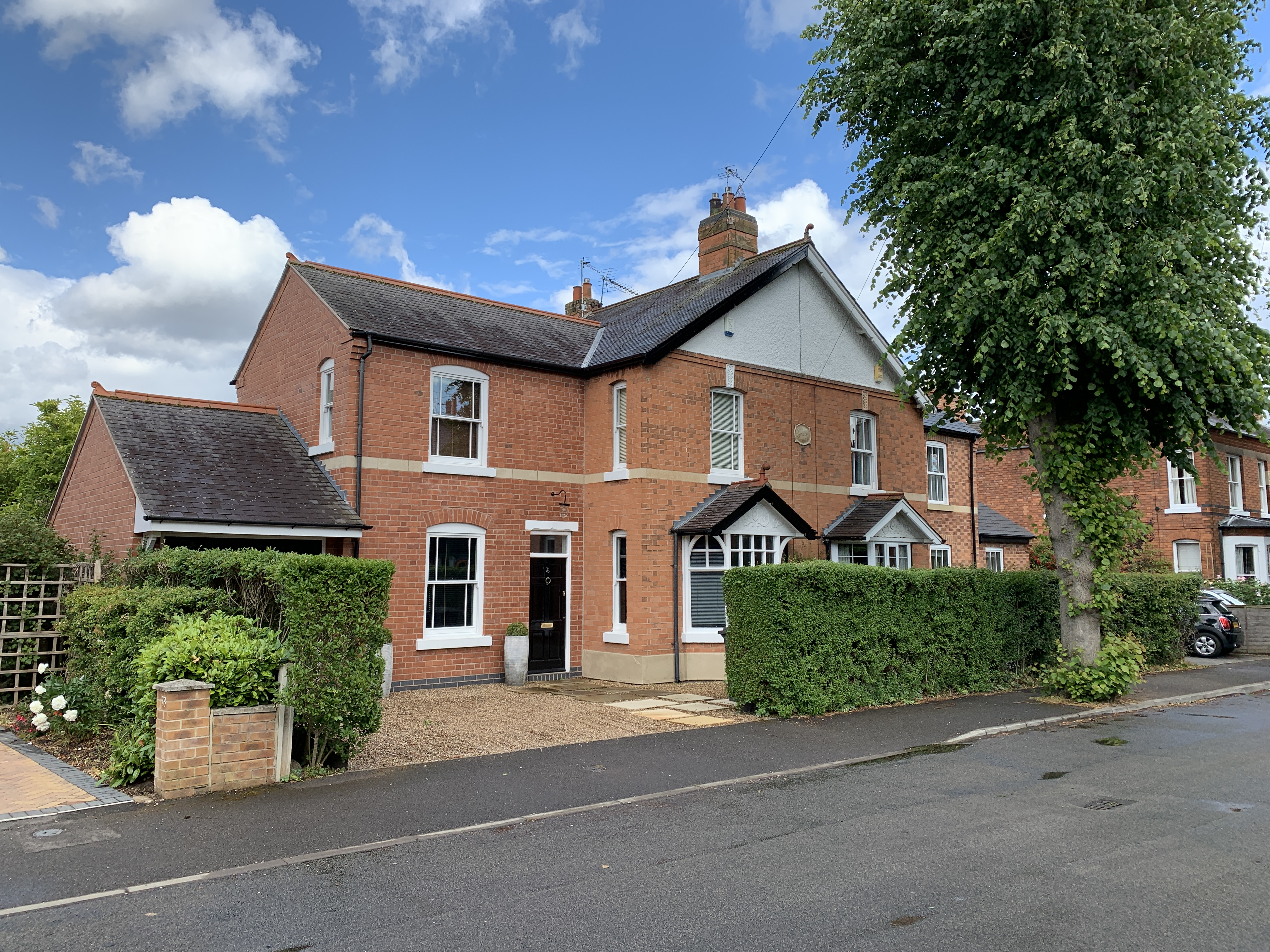 Semi-detached houses designed and built by Thomas Woolston in 1903.